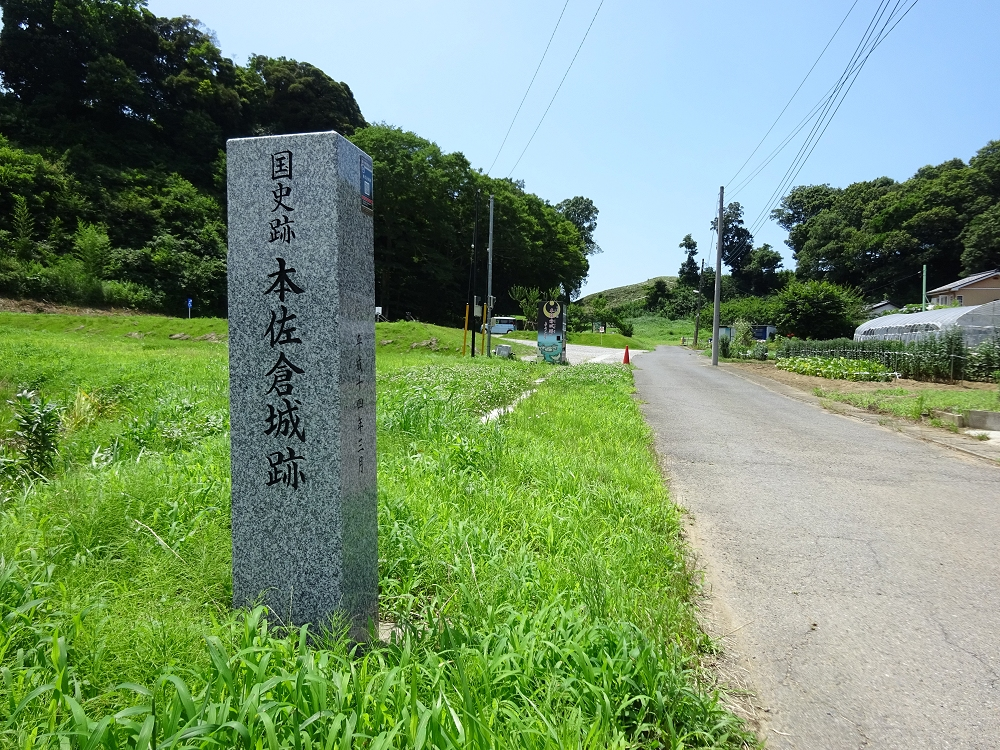 Site of Motosakura Castle